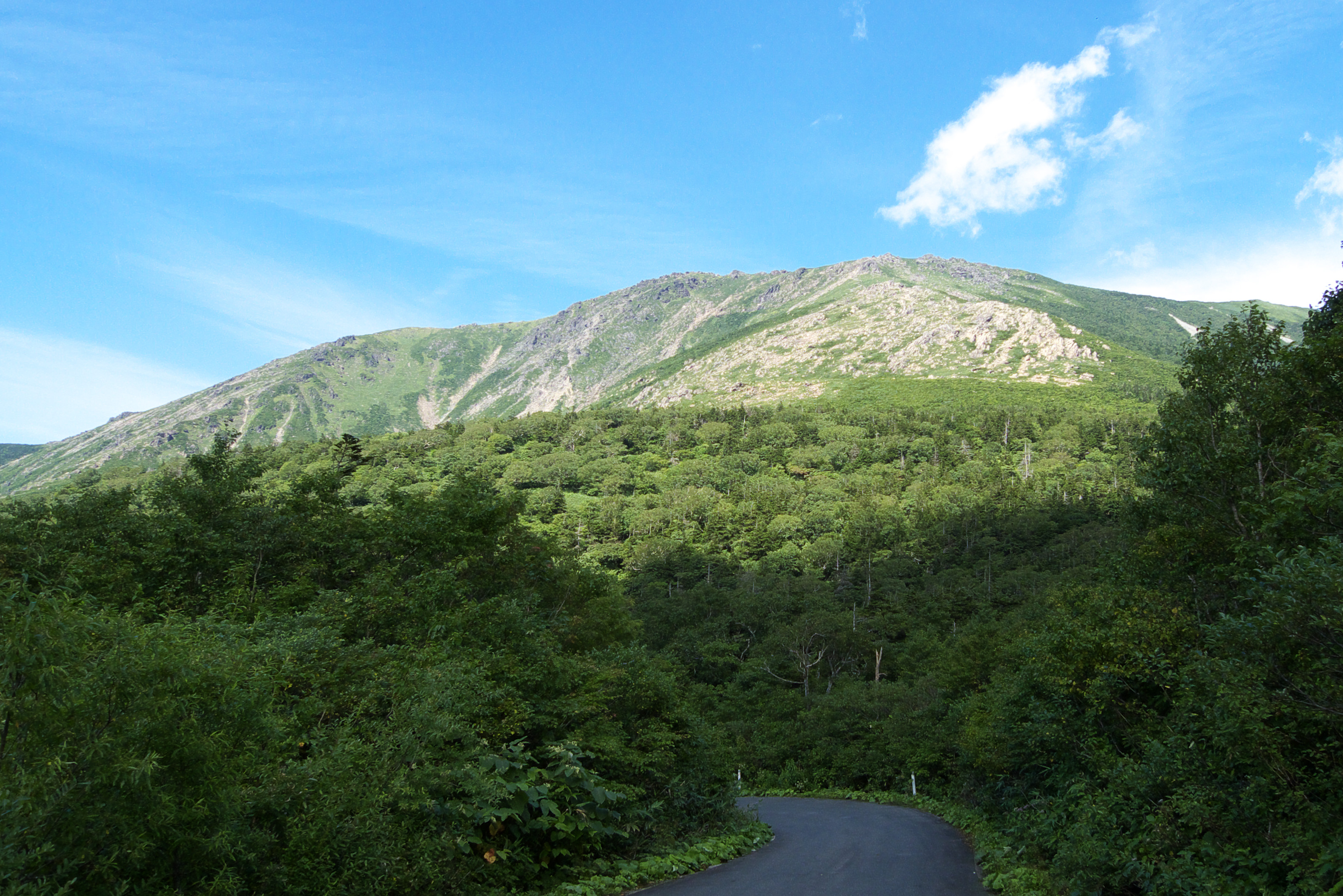 Mount Hayachine as seen from a point on the Iwate Prefectural Road Route 25 between Kawaranobo and Odagoe